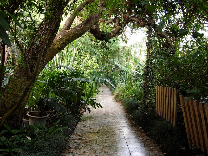 Conservatory inside, botanical garden Ufa